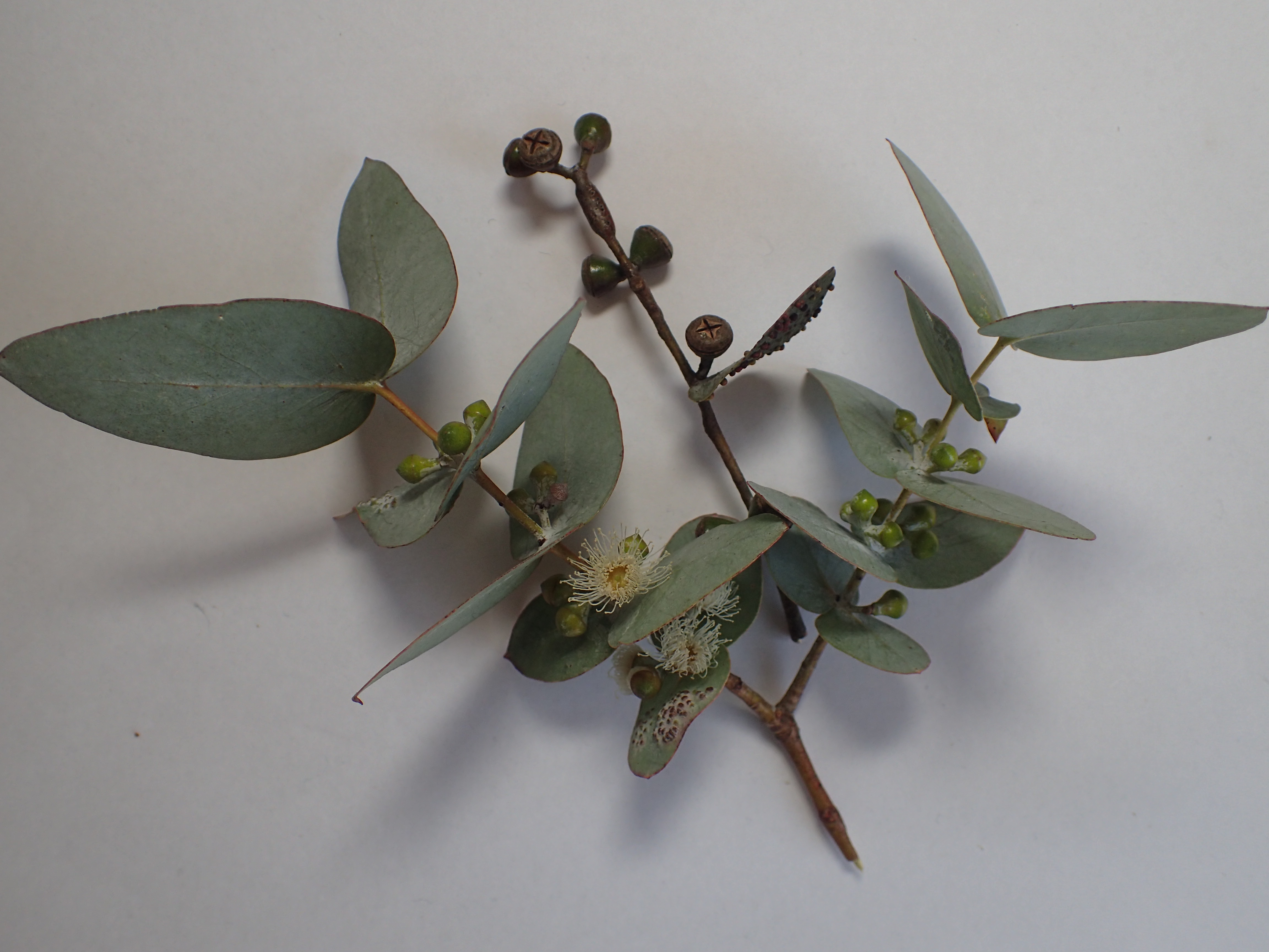 Leaves, buds, flowers and fruit of Eucalyptus cinerea in the grounds of Armidale City Public School